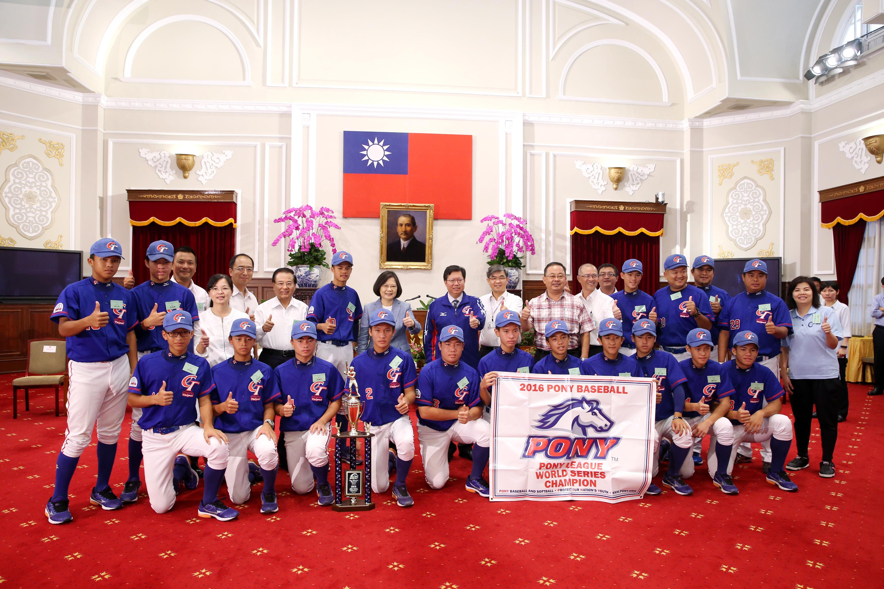 President Tsai meets the ROC’s winning baseball teams from the WBSC, BFA, and LLB and PONY. (2016/08/24) 授權方式及範圍：中華民國總統府│政府網站資料開放宣告 Authorization Method & Scope: Office of the President, Republic of China (Taiwan) | Government Website Open Information Announcement